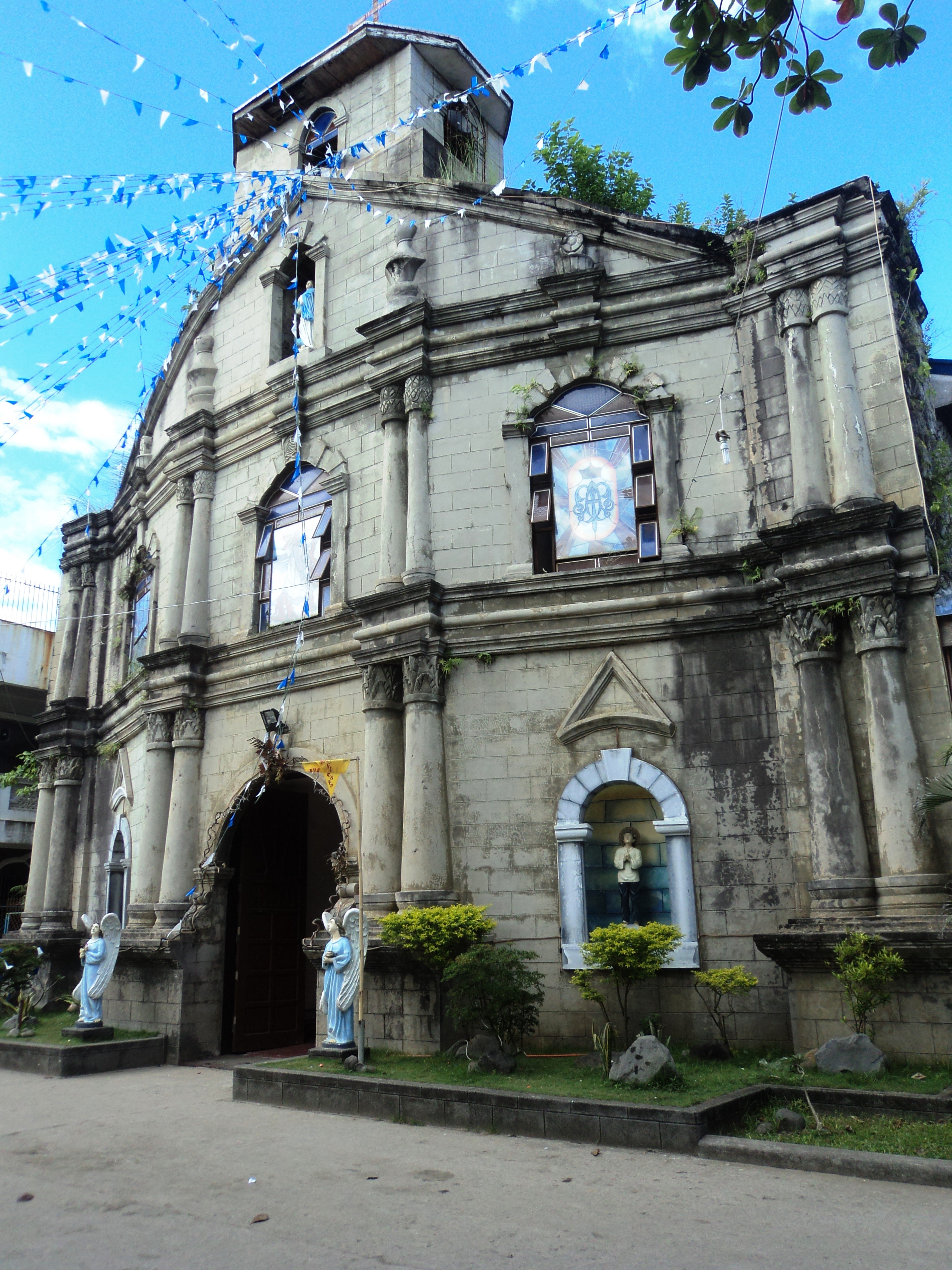 Front view of the Immaculate Concepcion Parish Church in Catanauan, Quezon, Philippines